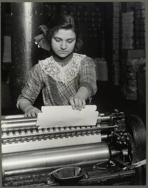 A 14 year old Italian girl working in a Paper-Box factory in the United States in 1913